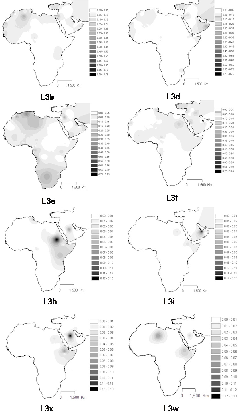 Interpolation maps for L3b, L3d, L3e, L3f L3h, L3i, L3x and L3w haplogroup in the sub-Saharan pool observed in each sample.